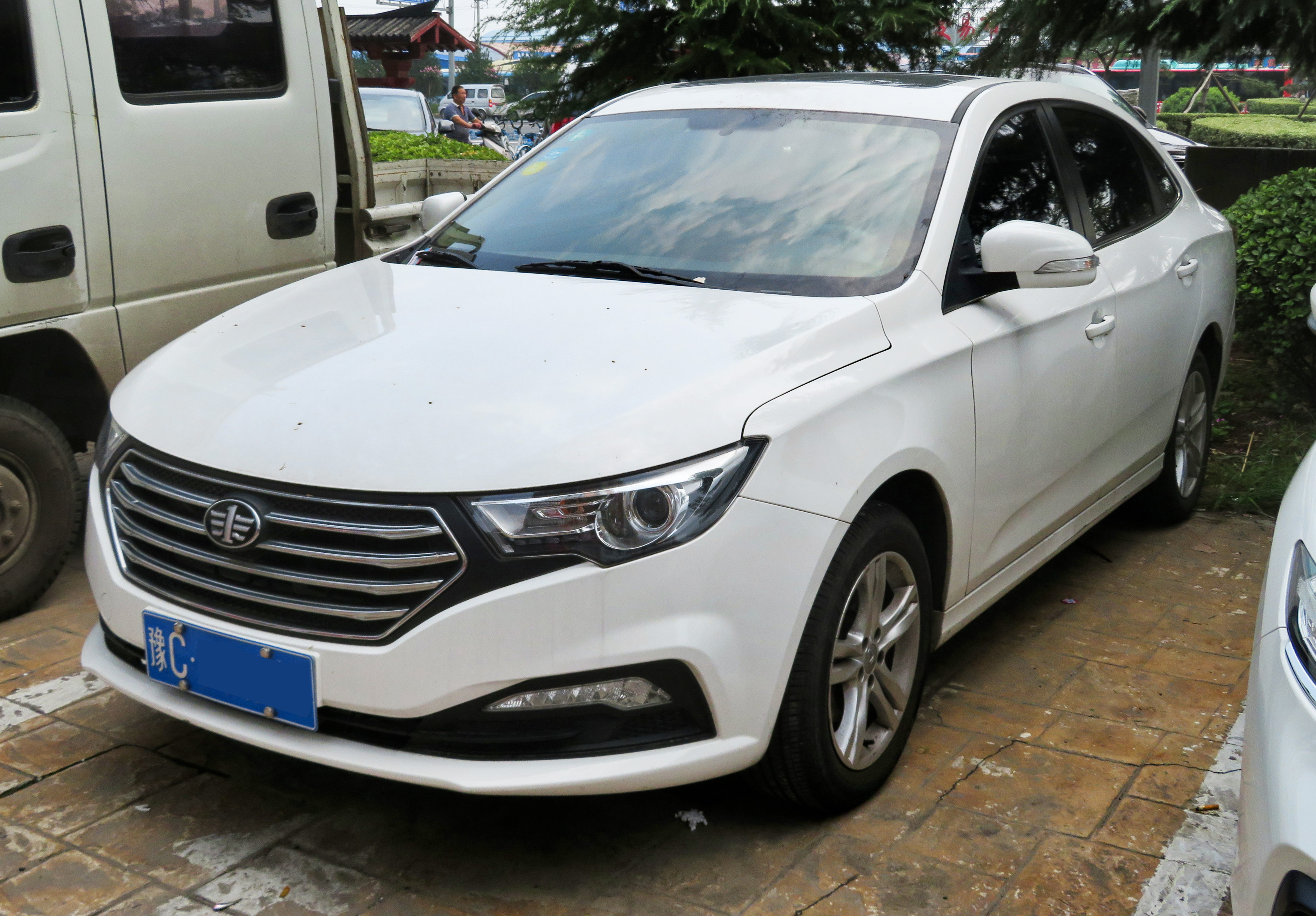 A 2017 FAW-Besturn B30 photographed in Luolong District, Luoyang, Henan province, China